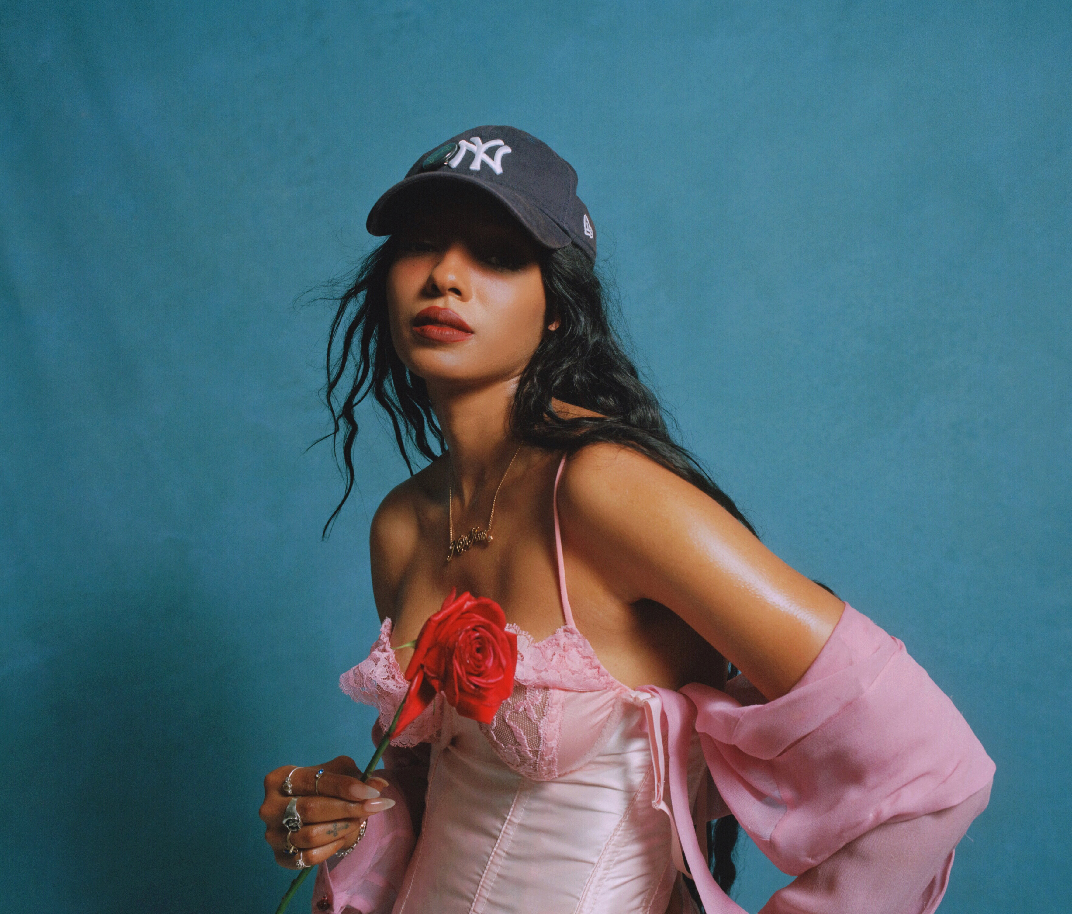 Singer-Songwriter Diana Gordon in 2019.